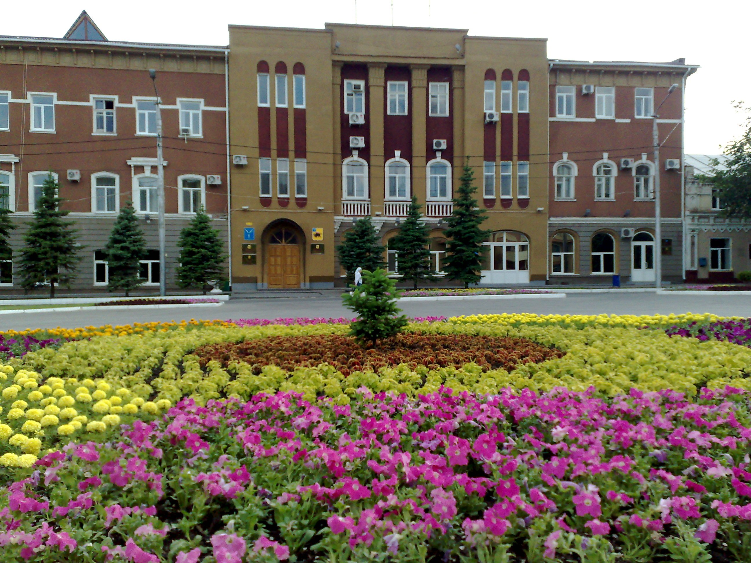 Administration of Engels Municipal Disrict, Saratov Region